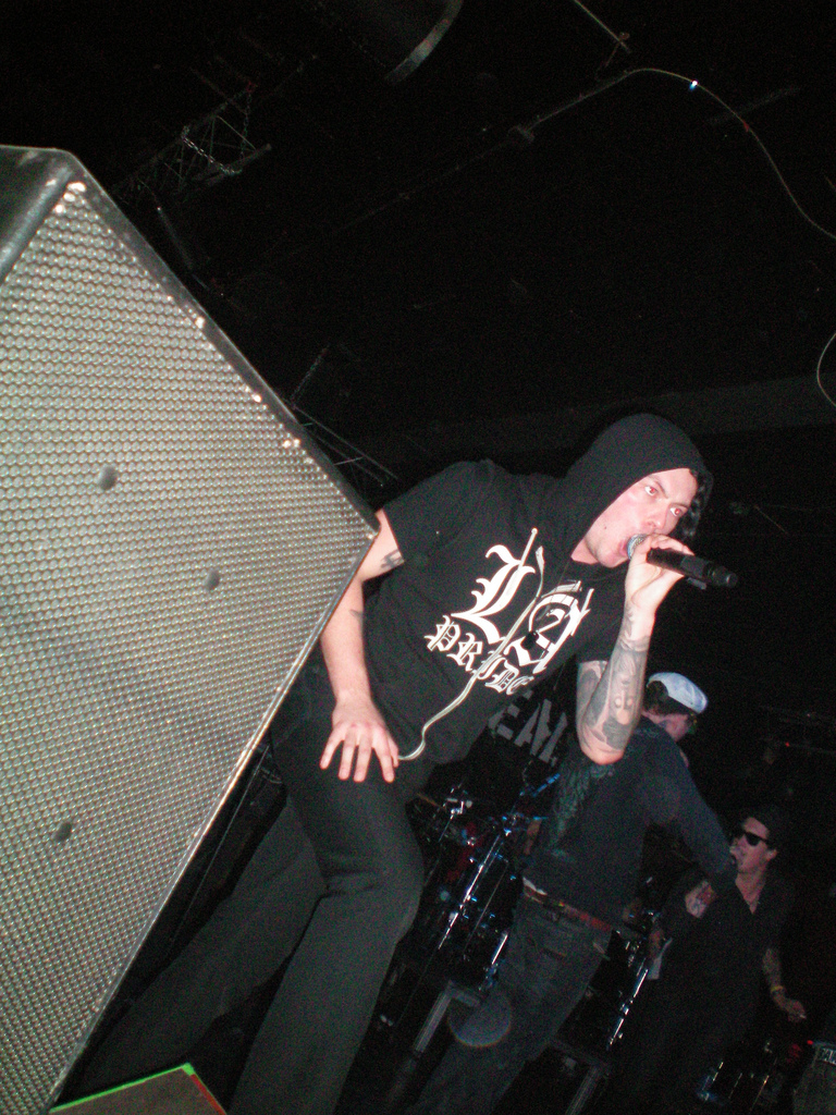 Da Kurlzz, Hollywood Undead, Amos' Southend, Charlotte, North Carolina. This photo was taken on November 16, 2008 using a Kodak EasyShare M883 Zoom.